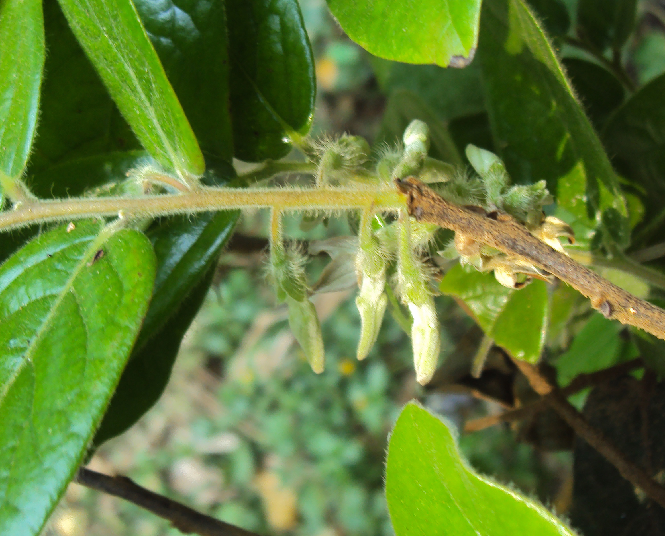 Diospyros saldanhae